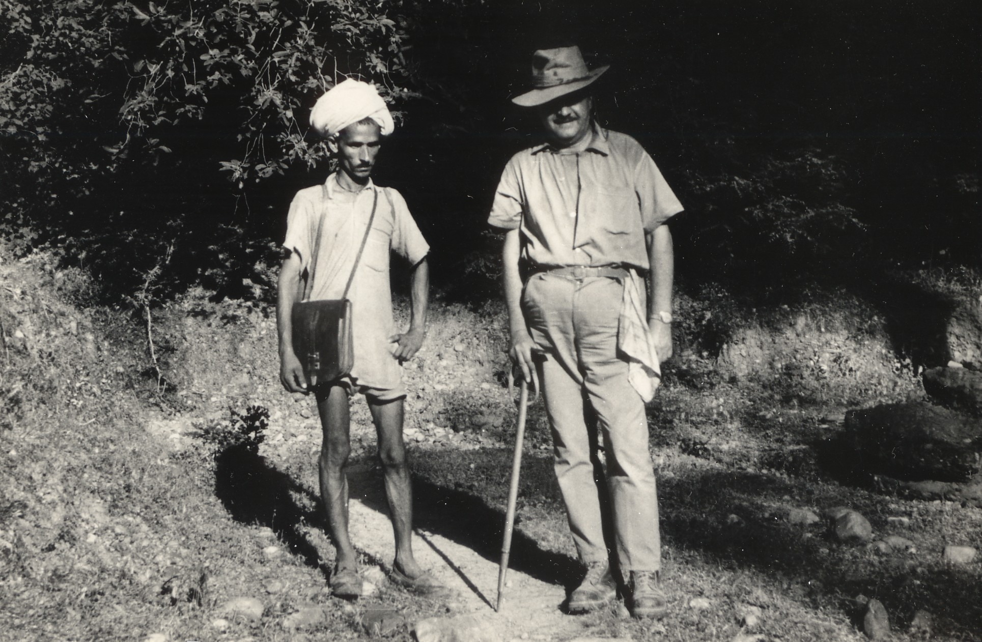 Stefan Zbigniew Różycki in Siwalik Hills, India 1967